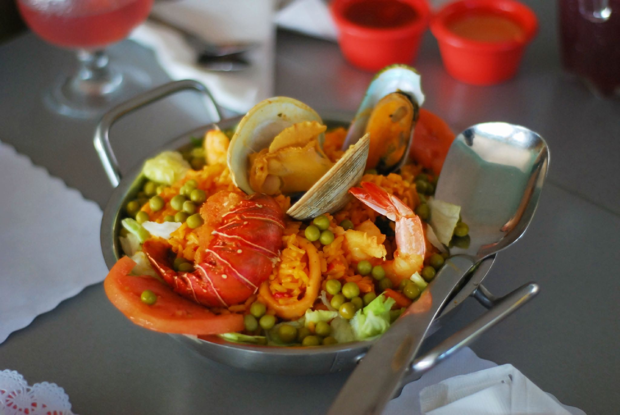 It can't get any better than this!